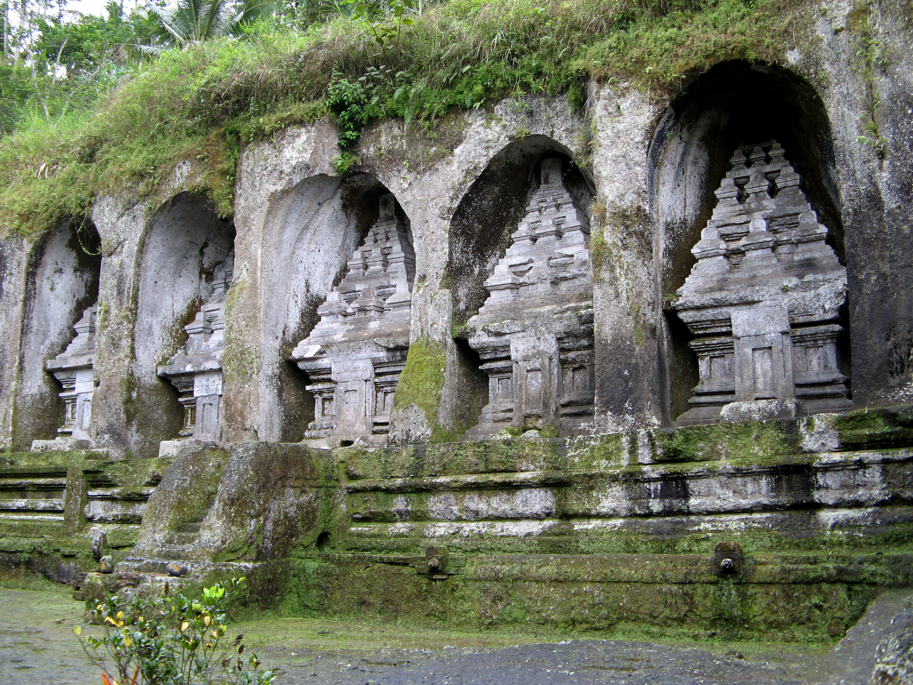 The funerary monuments on the east side are traditionally called "kings' tombs," although only one inscription can be read today. It is located over the northernmost niche (left, in this photo) and is thought to refer to King Anak Wunshu, r. 1050 - 1077 AD. The monuments are truly impressive in scale, averaging about 7m (23ft) in height. Spouts at their base (right side of photo) directed water down from the upper terrace to a lower pool, while the central staircase gave access to the niches for devotional purposes.